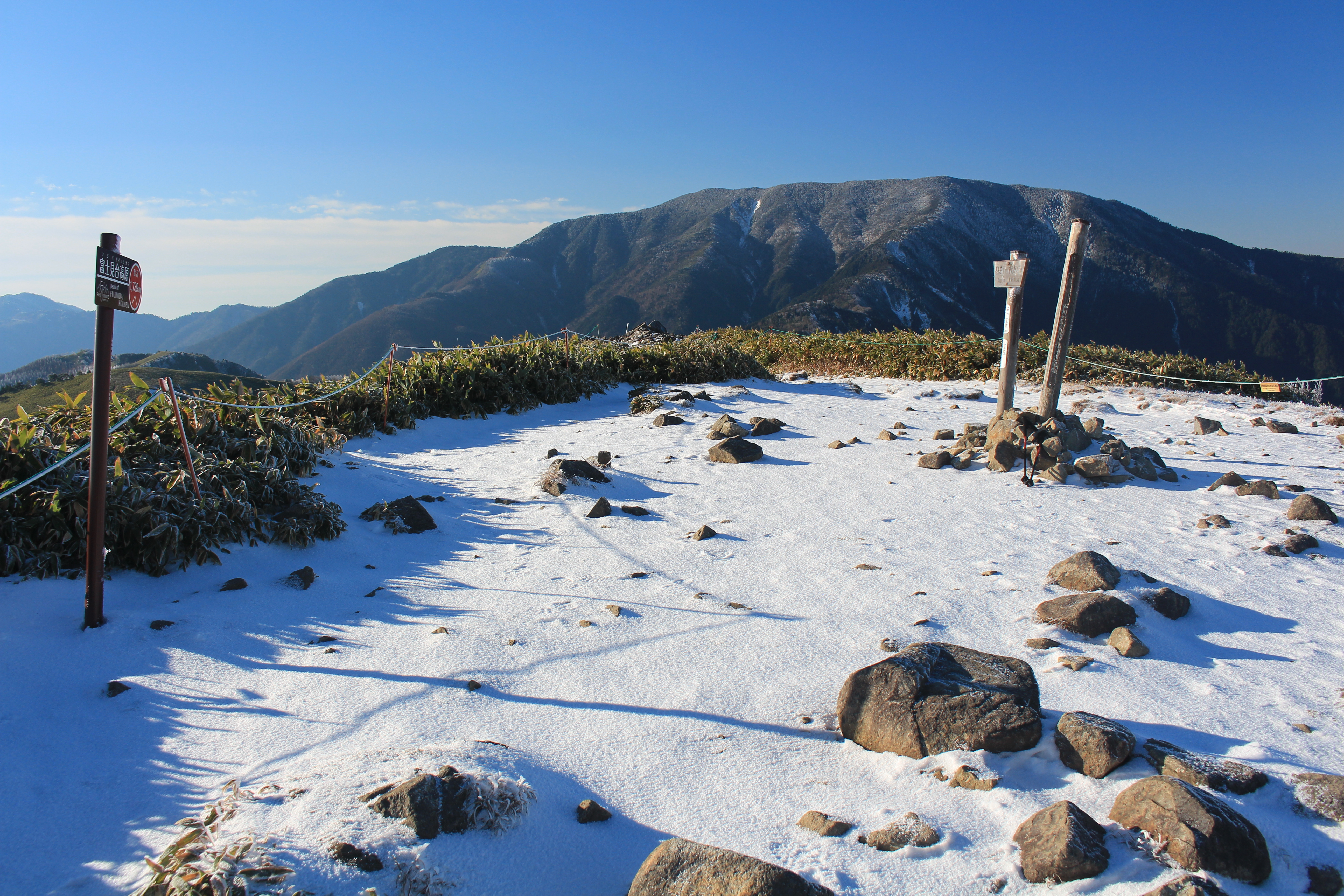 Peak of Mount Fujimidai and Mount Ena in Kiso Mountains, Japan.